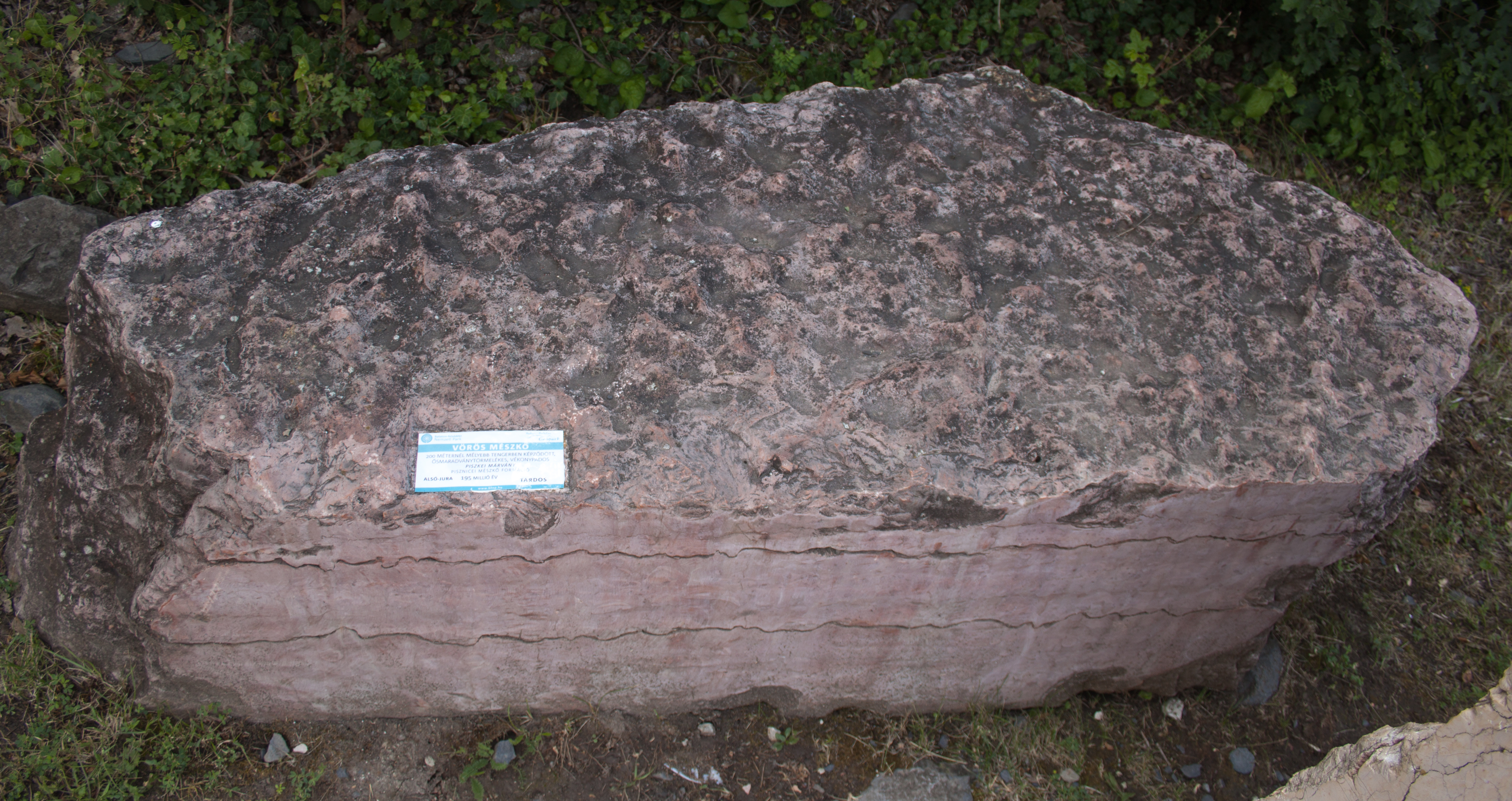 Red limestone, Tardos